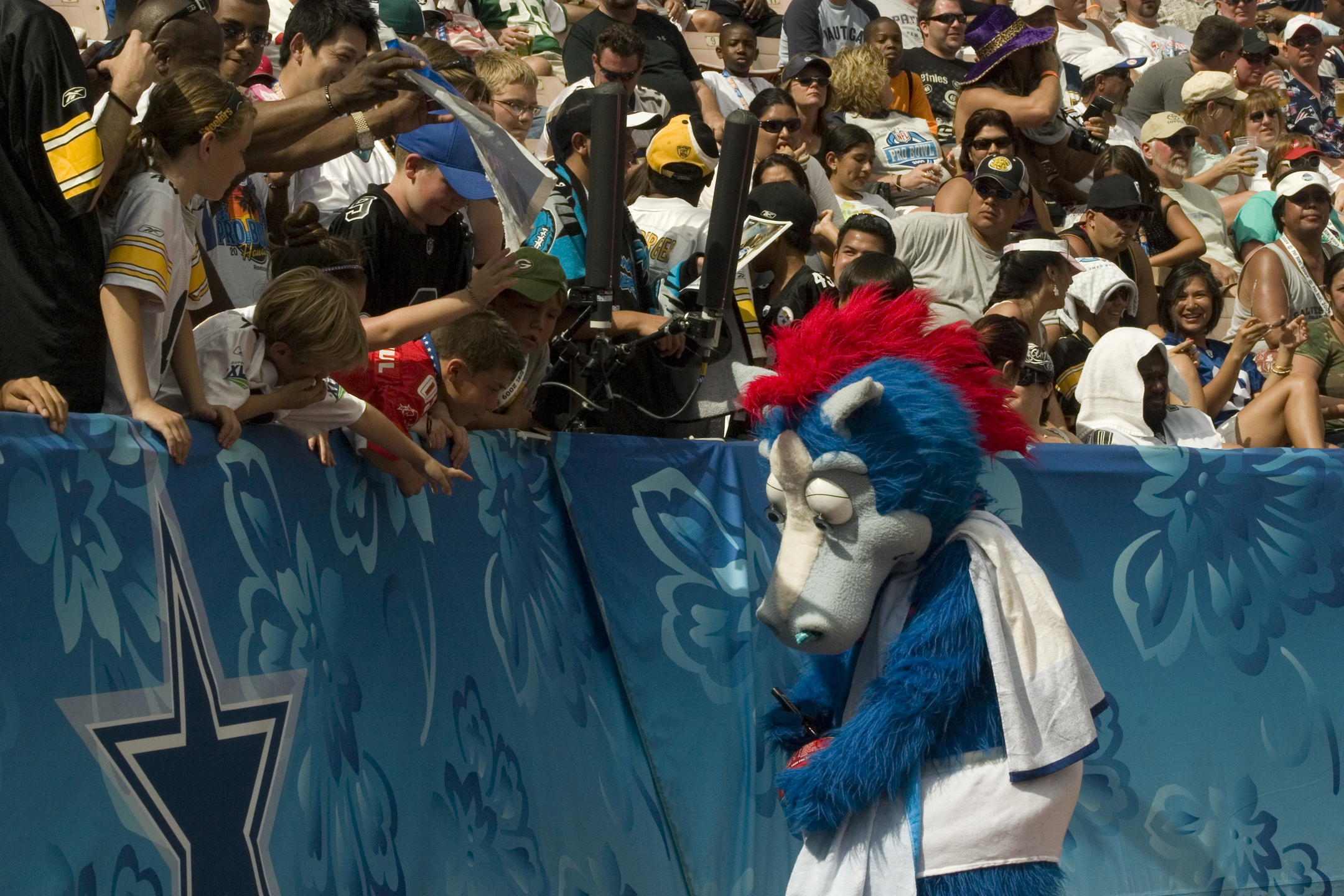 The Indianapolis Colts' mascot, Blue, signs autographs for fans at the Pro Bowl, Feb. 8. Mascots representing numerous NFL football teams entertained the crowd throughout the game.